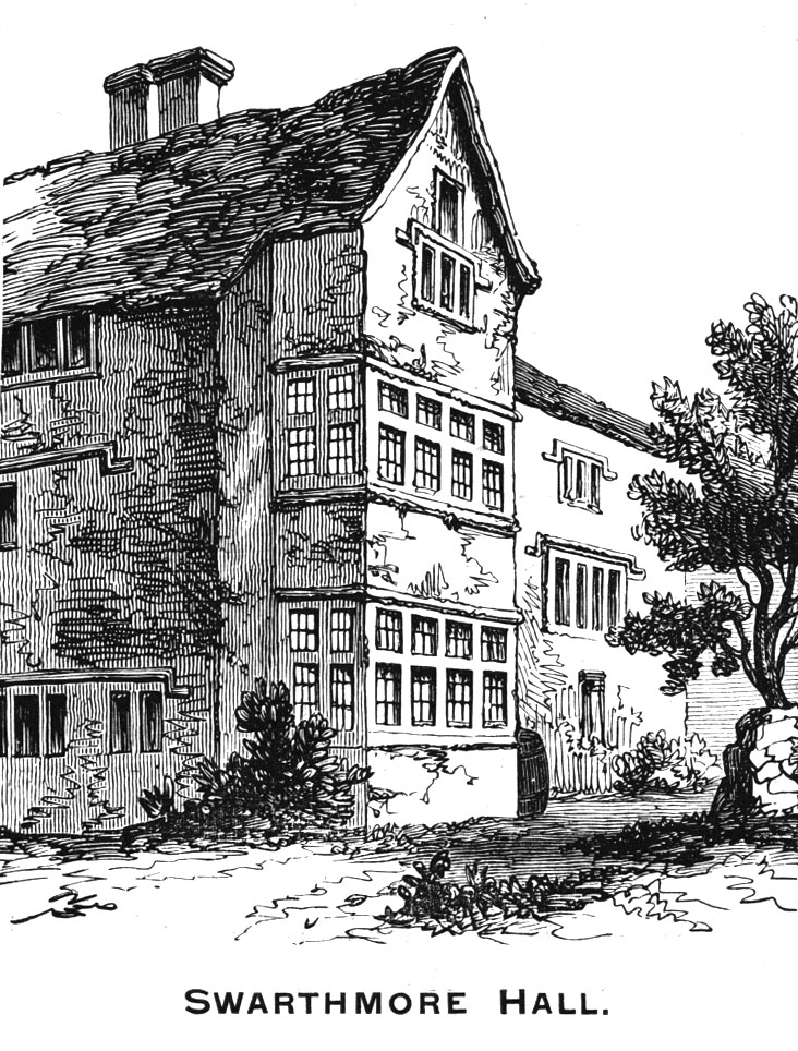 Swarthmoor Hall where Margaret Fell lived and organised the young Religious Society of Friends. See Quaker.